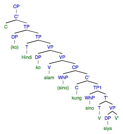 (12a), Syntax tree adapted from Sabbath (2014), example 62, made with